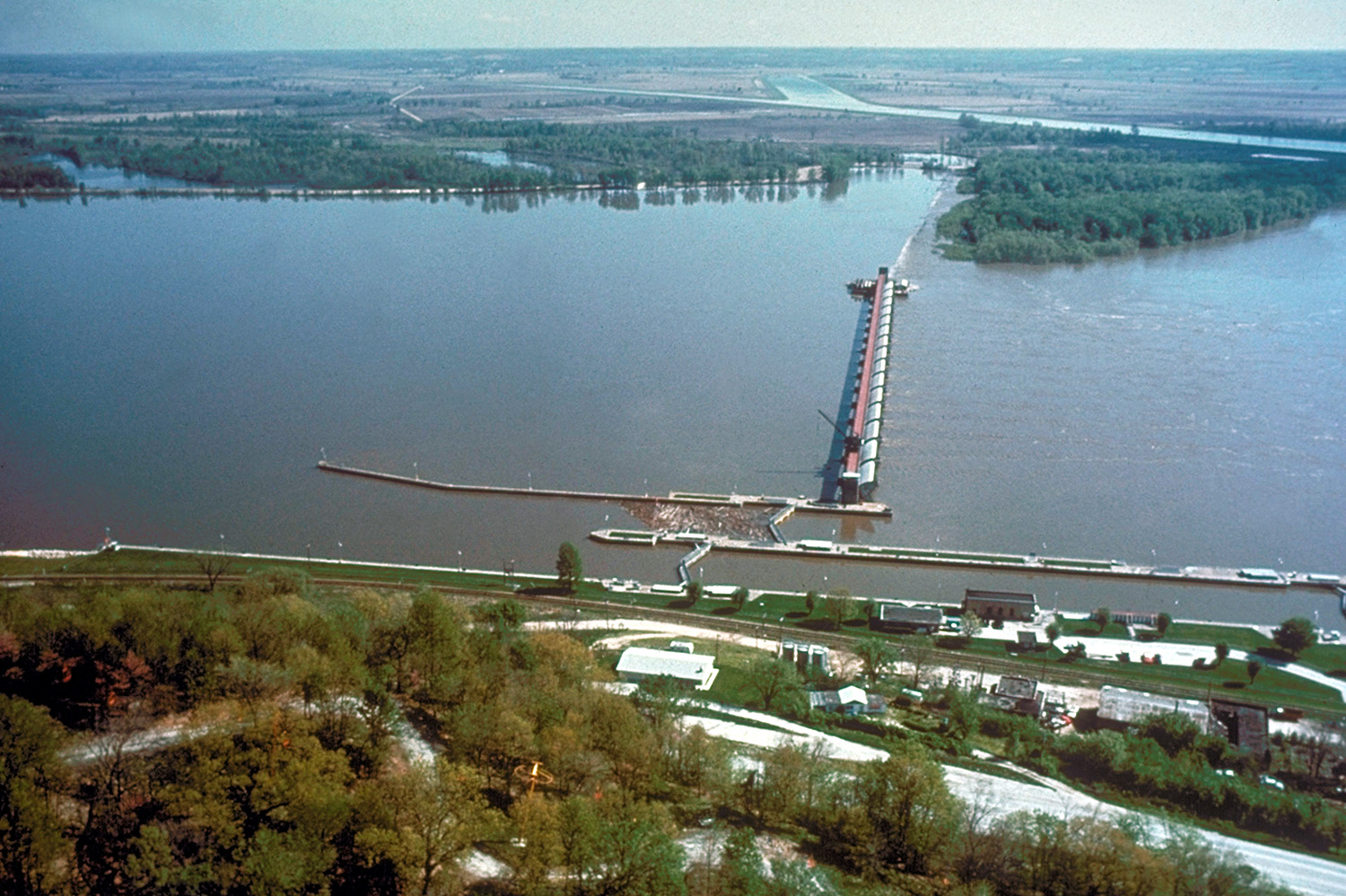 Lock and dam number 24 on the Mississippi River at Clarkesville, Missouri, USA. View is from the Missouri side of the river looking northeast over Illinois.